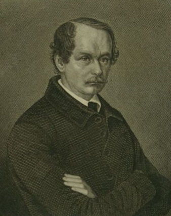 Portrait From Schleiden